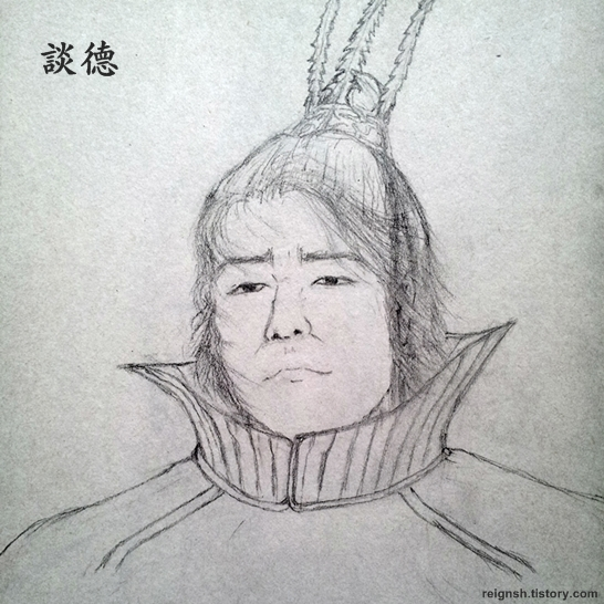 Korean Goguryeo 19th king Gwanggaeto